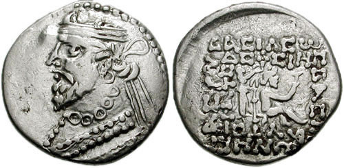 Coin of the Indian-Parthian king Gondopahres